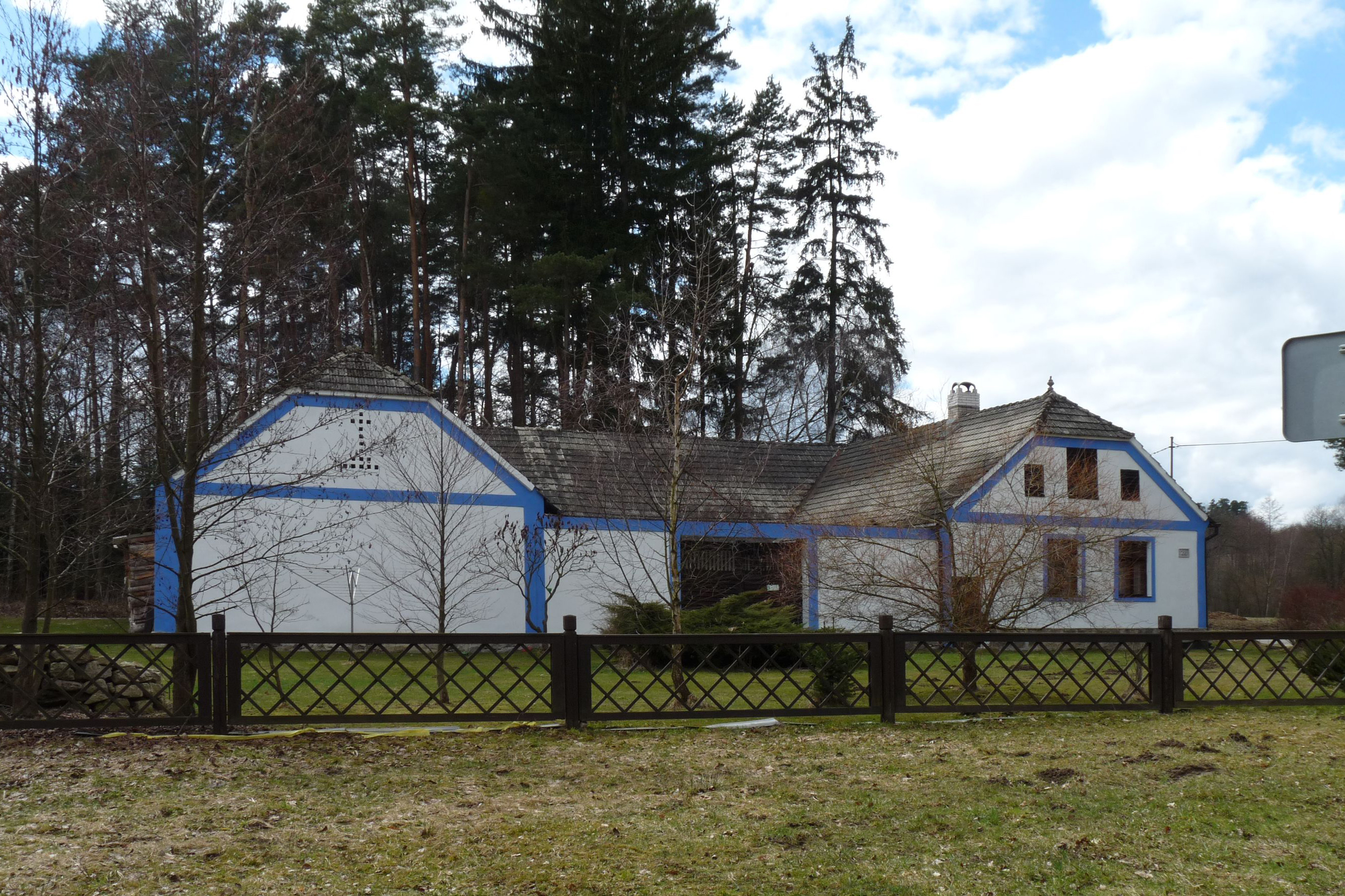 House No 28 in the village of Klažary in České Budějovice District, South Bohemian Region, Czech Republic.